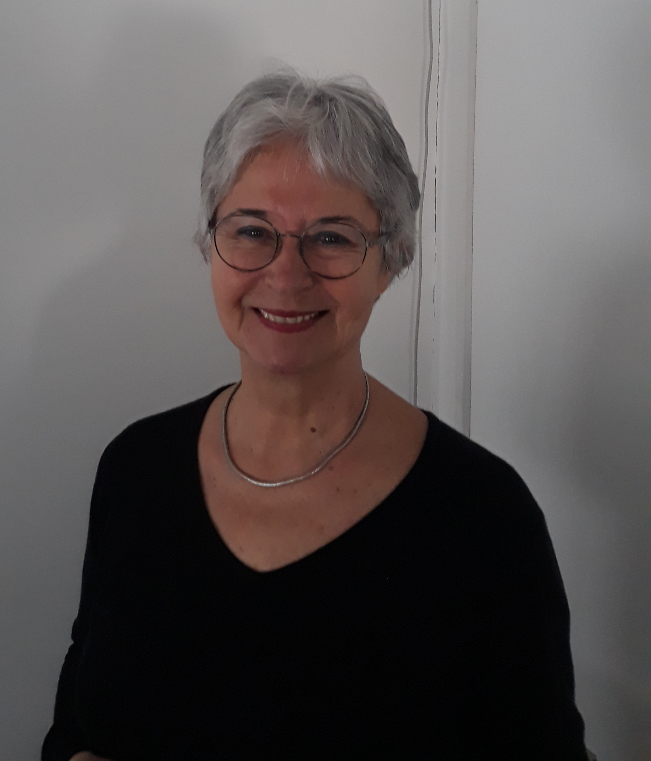 Ivana Stefanovic at University Library in Belgrade, Serbia, 2019